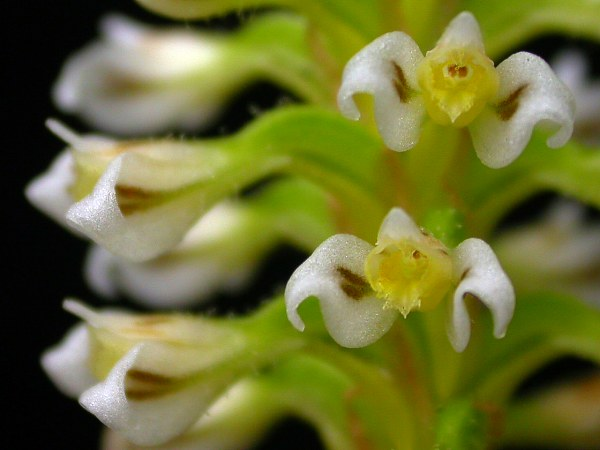 Aspidogyne nobilis